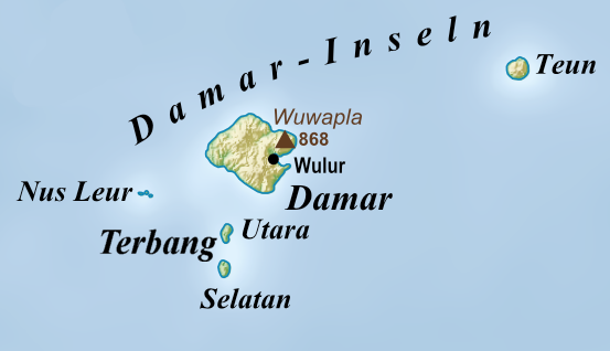 Map of Damar Islands